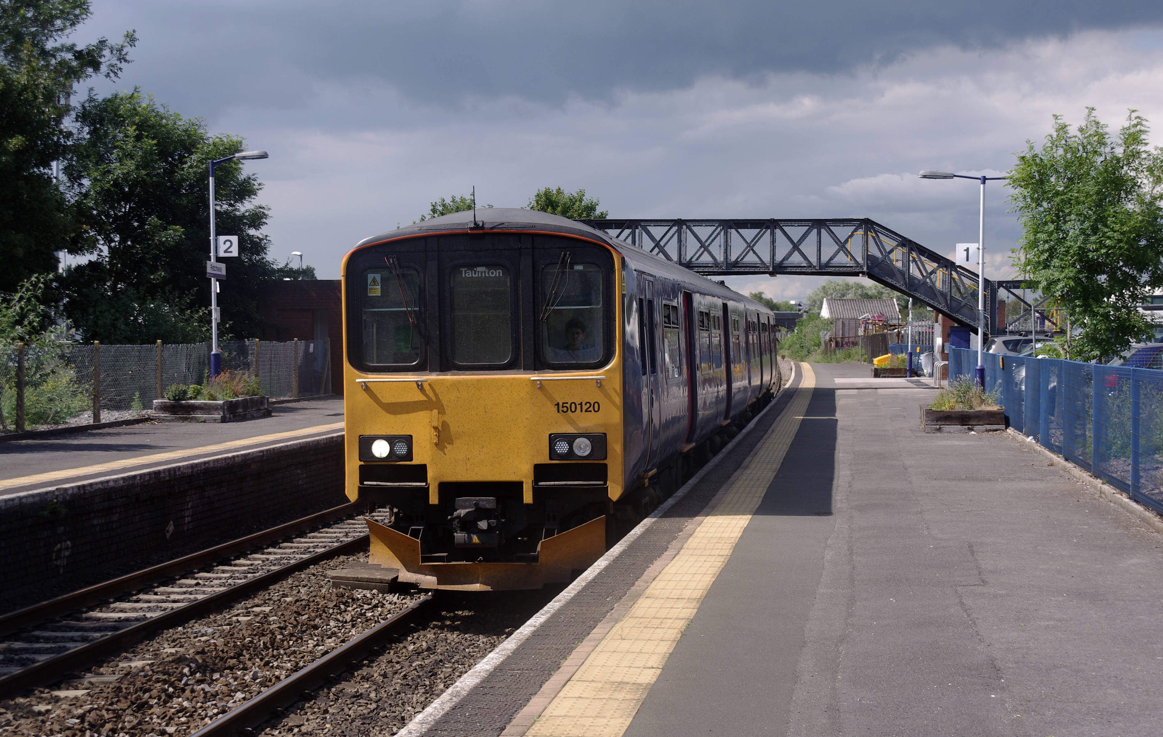 First Great Western Sprinter DMU 150120 departs Patchway with a Cardiff-Taunton service.